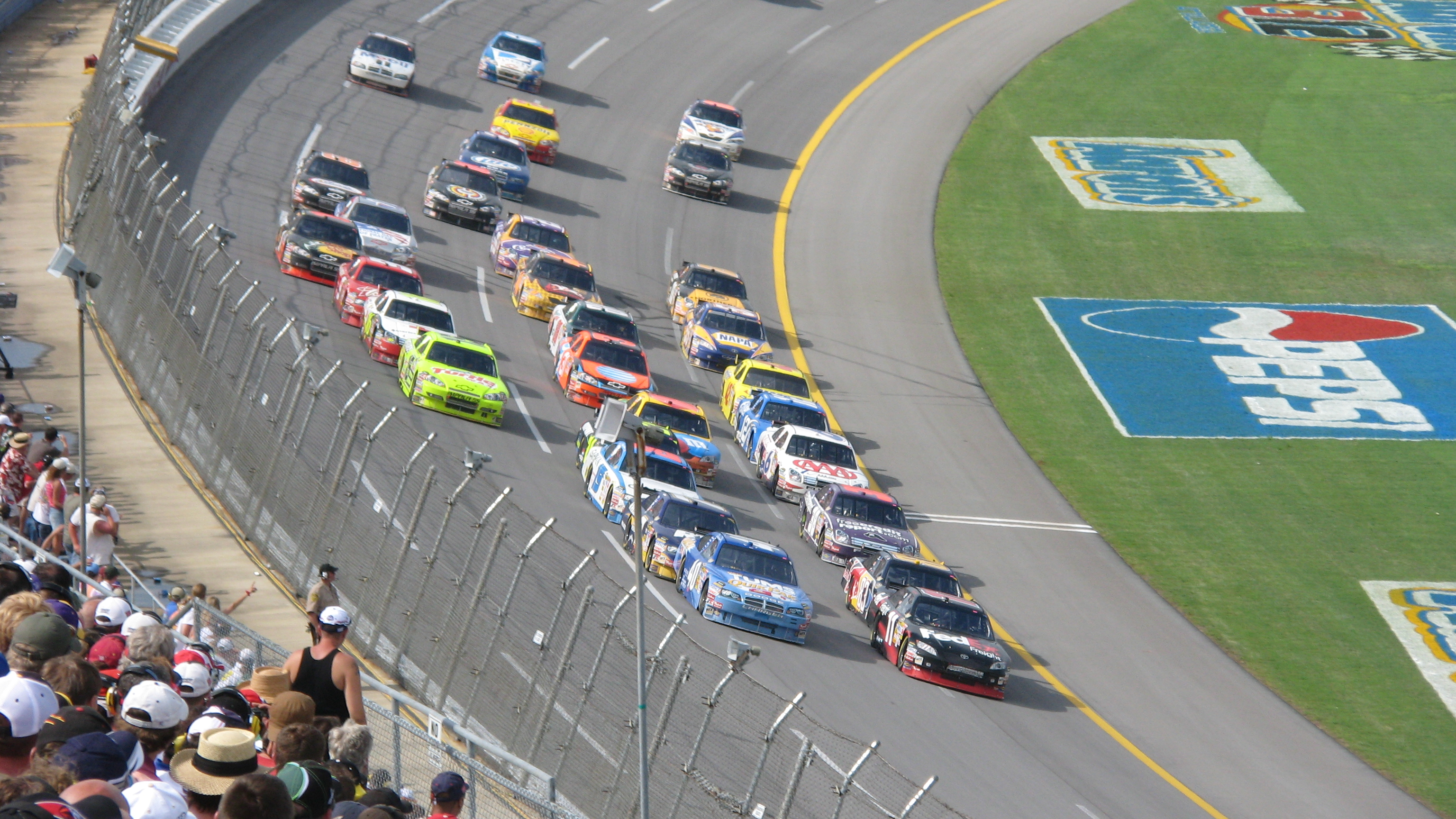 2008 Aaron's 499 at Talladega Superspeedway